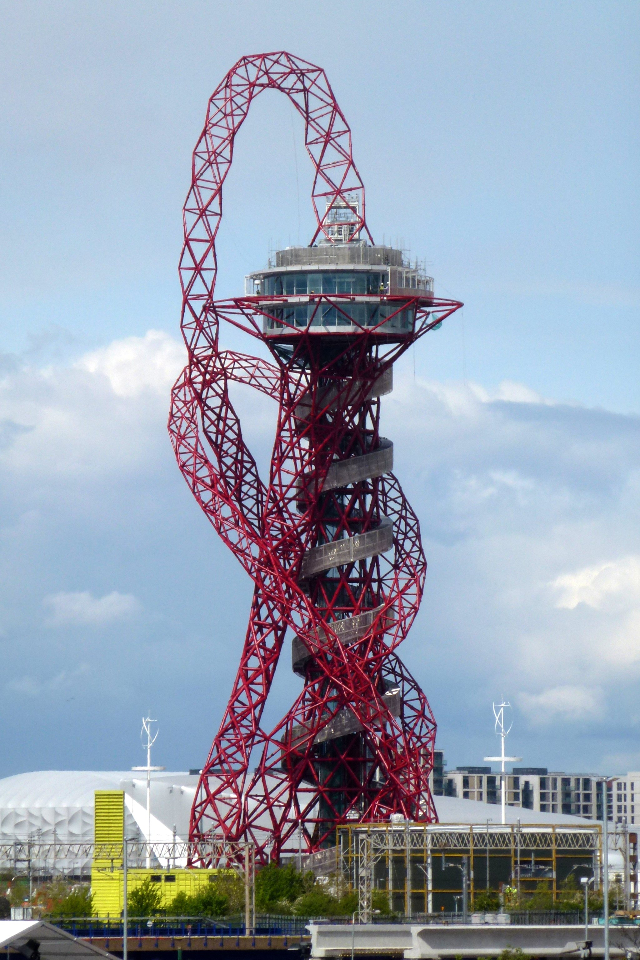 ArcelorMittal Orbit viewed from Stratford High Street (A118).